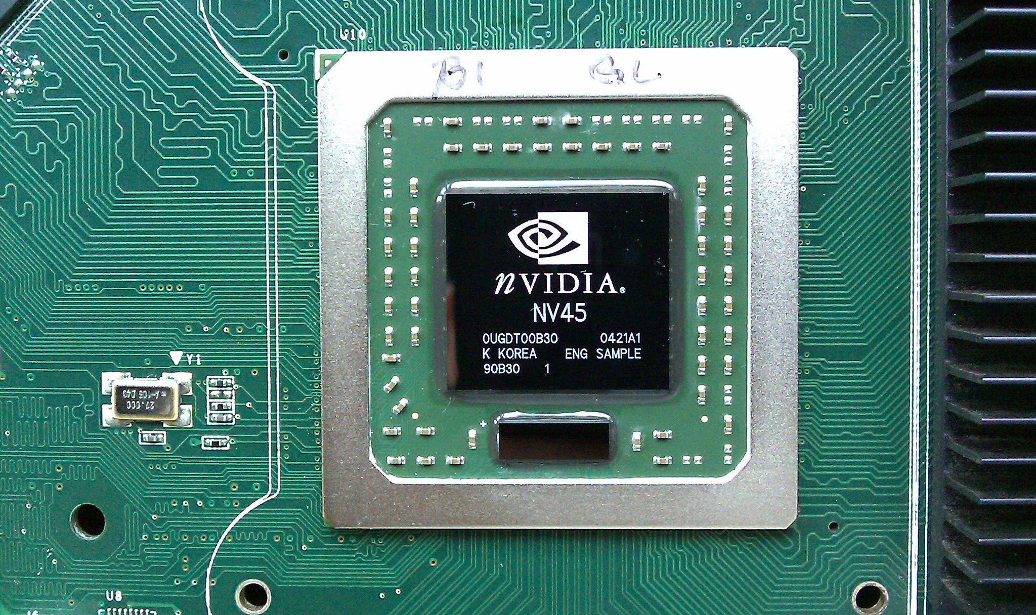 GeForce 6800 Ultra 512MB NV48 ES GPU